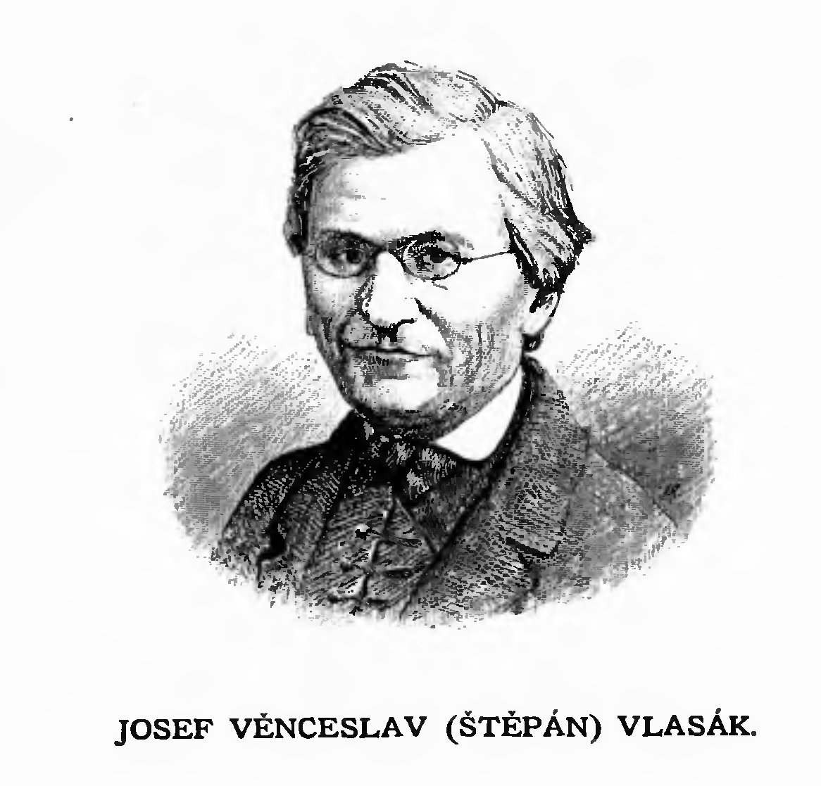 Portrait of Josef Věnceslav Vlasák (1802-1871), Czech teacher and writer.